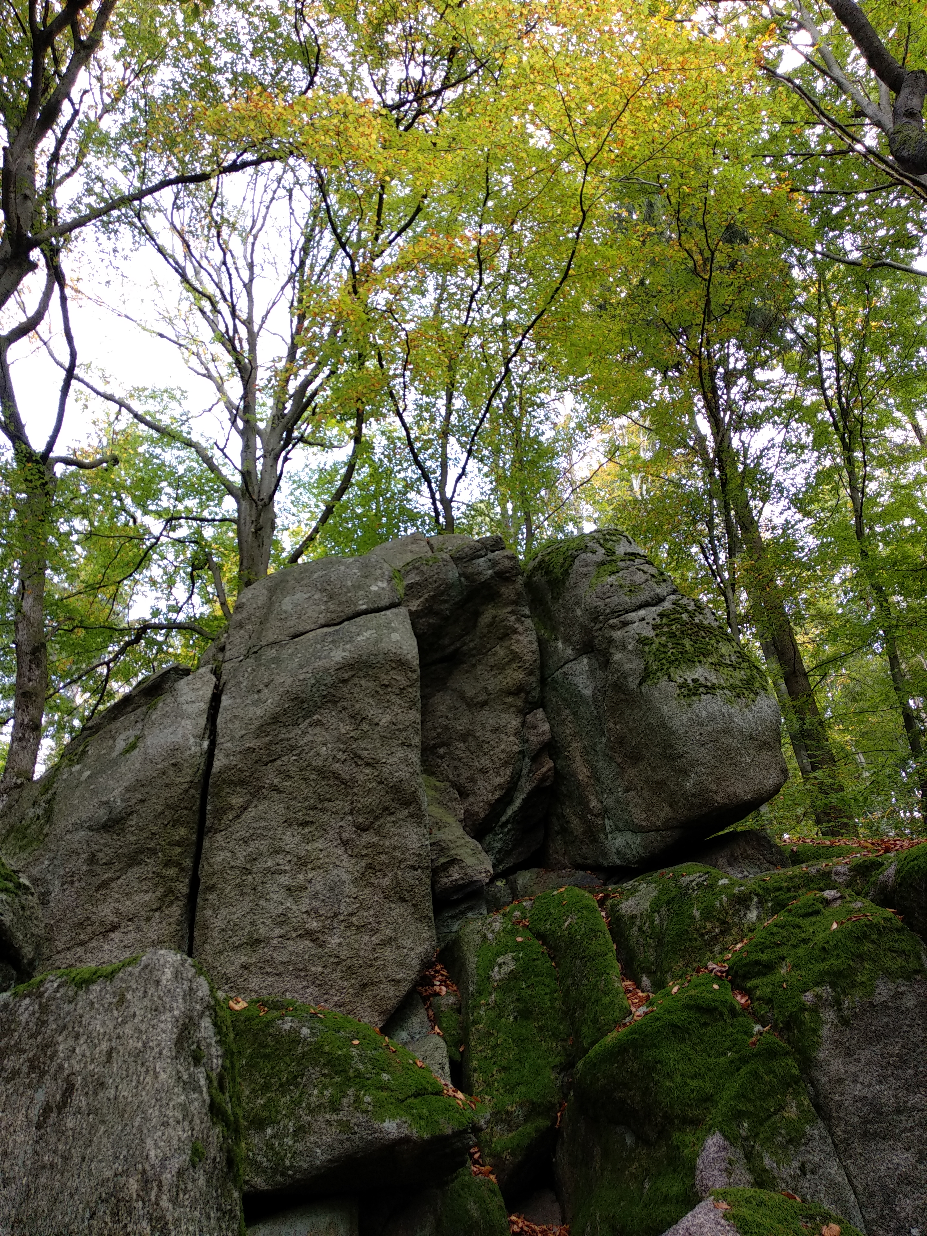 "Wildweibchenstein" Odenwald Germany